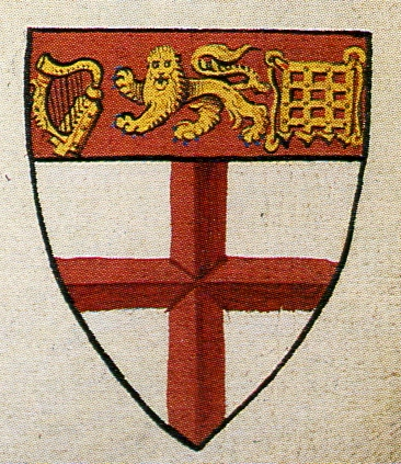 An image of the coat of arms of the Ulster King of Arms from a 1595 manuscript called Lant's Roll, created by Thomas Lant